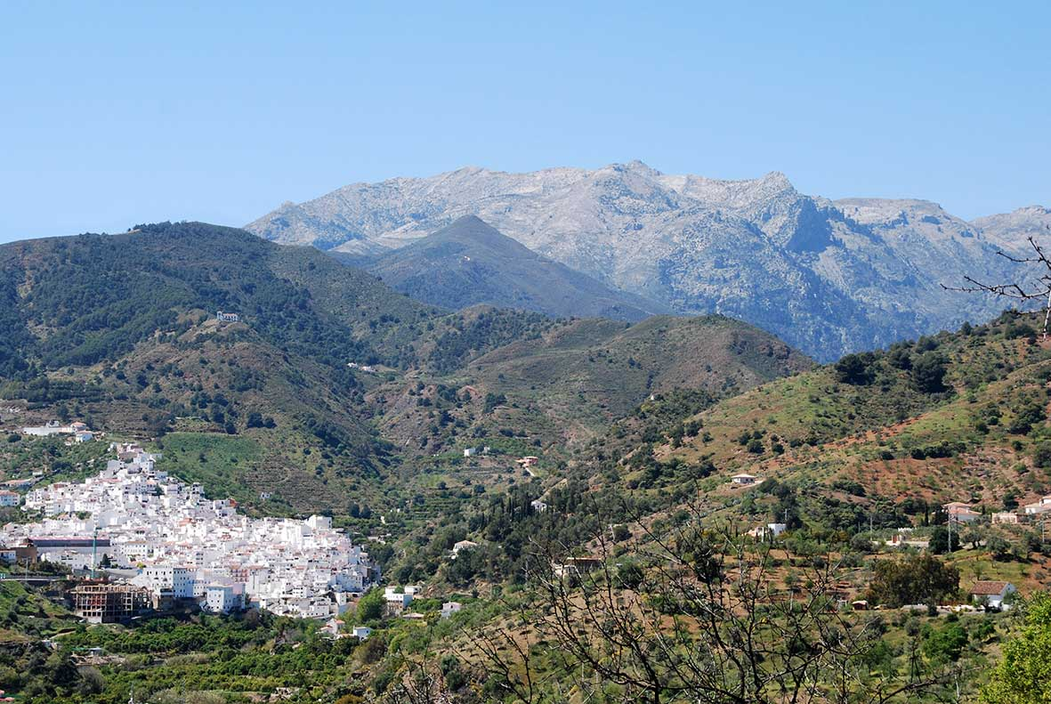 Tolox